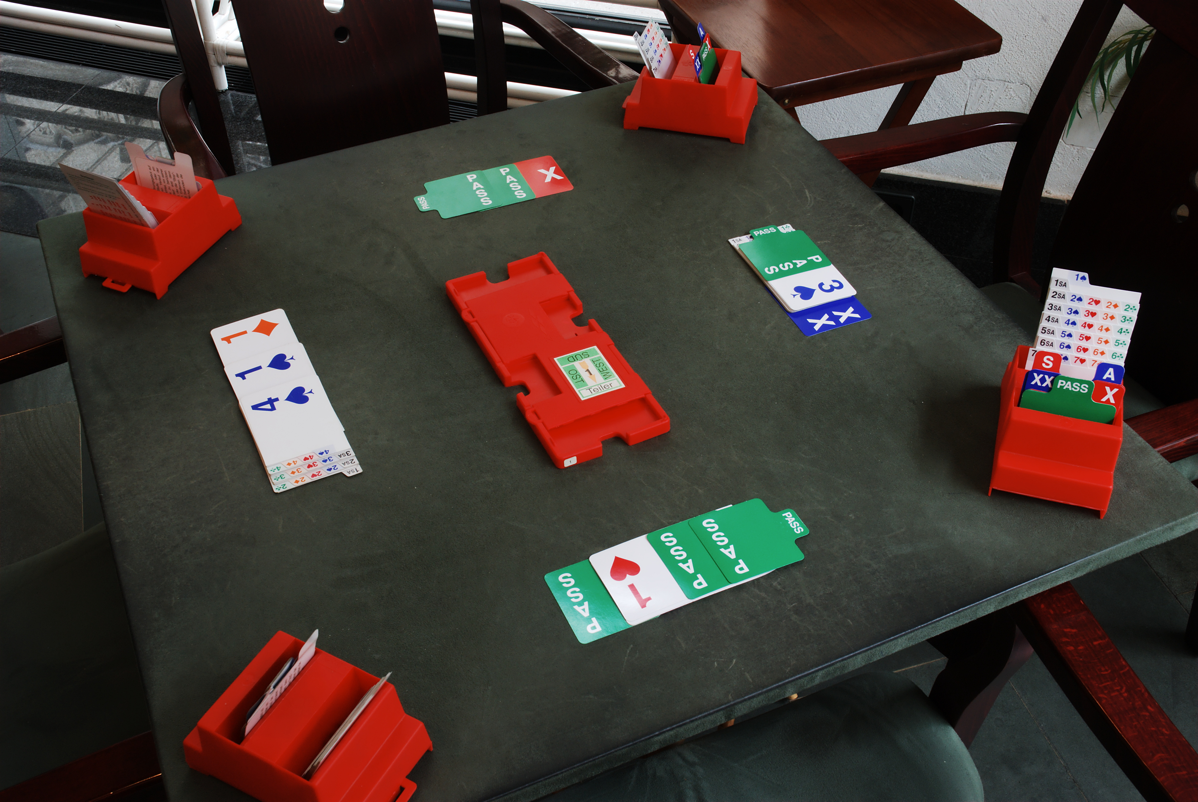 This picture shows an auction of contract bridge with bidding boxes. The player at the bottom (north) is dealer and starts with "Pass". The auction continues clockwise. The next player (at the left side of the picture, East) bids 1 diamond. The next player doubles (red card marked with "X"), followed by redouble (blue card marked with "XX"). The auction proceeds: 1 heart - 1 spade - pass - 3 spades - pass - 4 spades - pass - pass - pass. After three pass the auction is closed, the last bid becomes the contract.